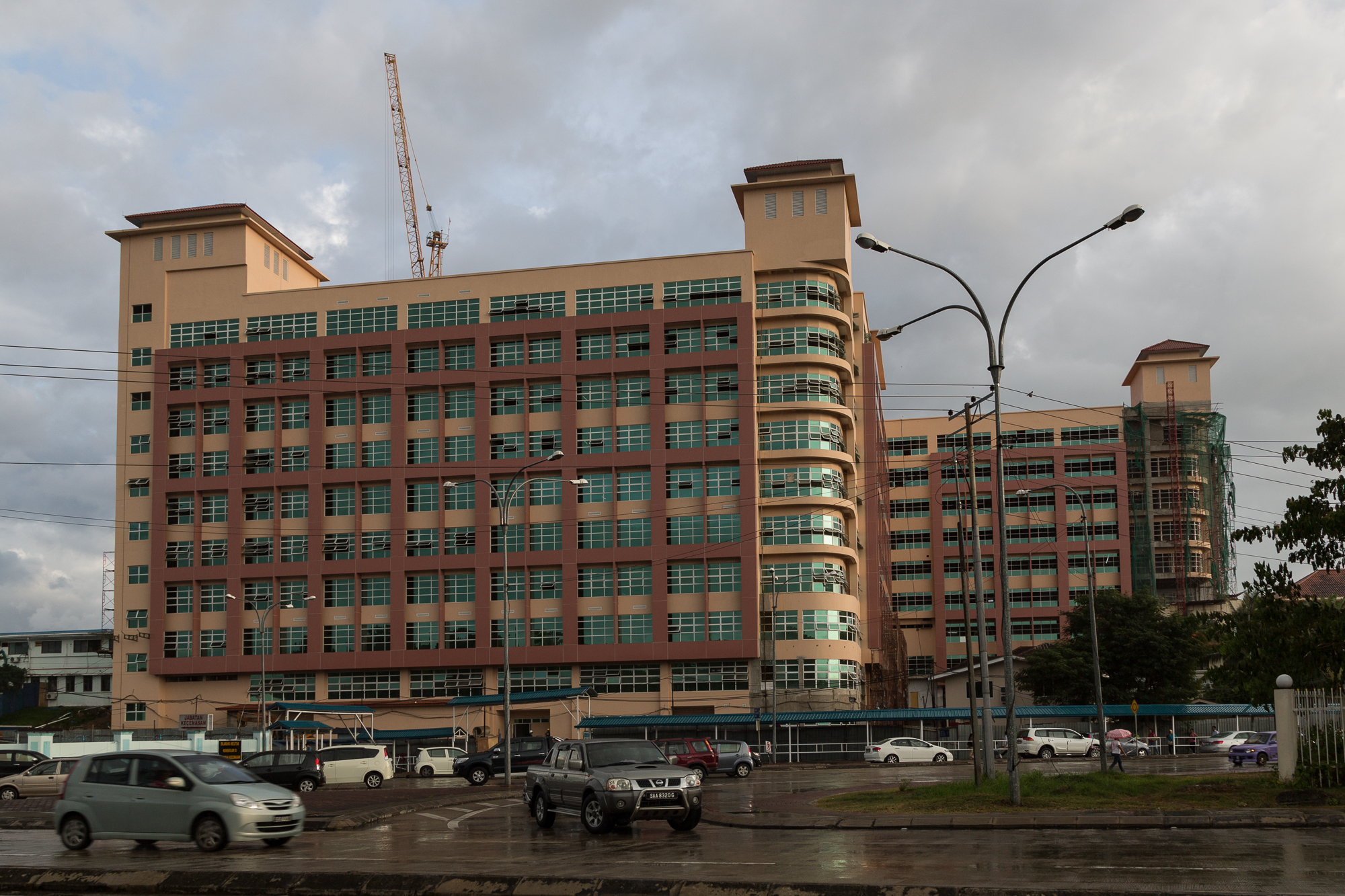 Kota Kinabalu, Sabah: Queen Elizabeth Hospital after renovation